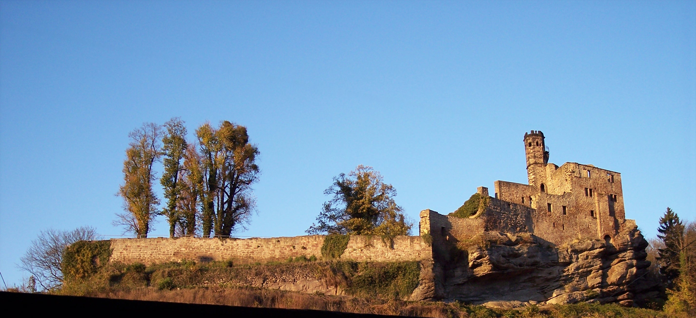 Original Reworked version of Image:Stronghold_Noerten-Hardenberg_.jpg by Nyks Original-Description: (Uploaded by User:Carlos-X)